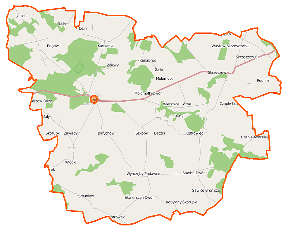 Map of Gmina Repki, Poland This map of Repki (gmina) was created from OpenStreetMap project data, collected by the community. This map may be incomplete, and may contain errors. Don't rely solely on it for navigation. Border coordinates52.442822.3005←↕→22.571452.3104